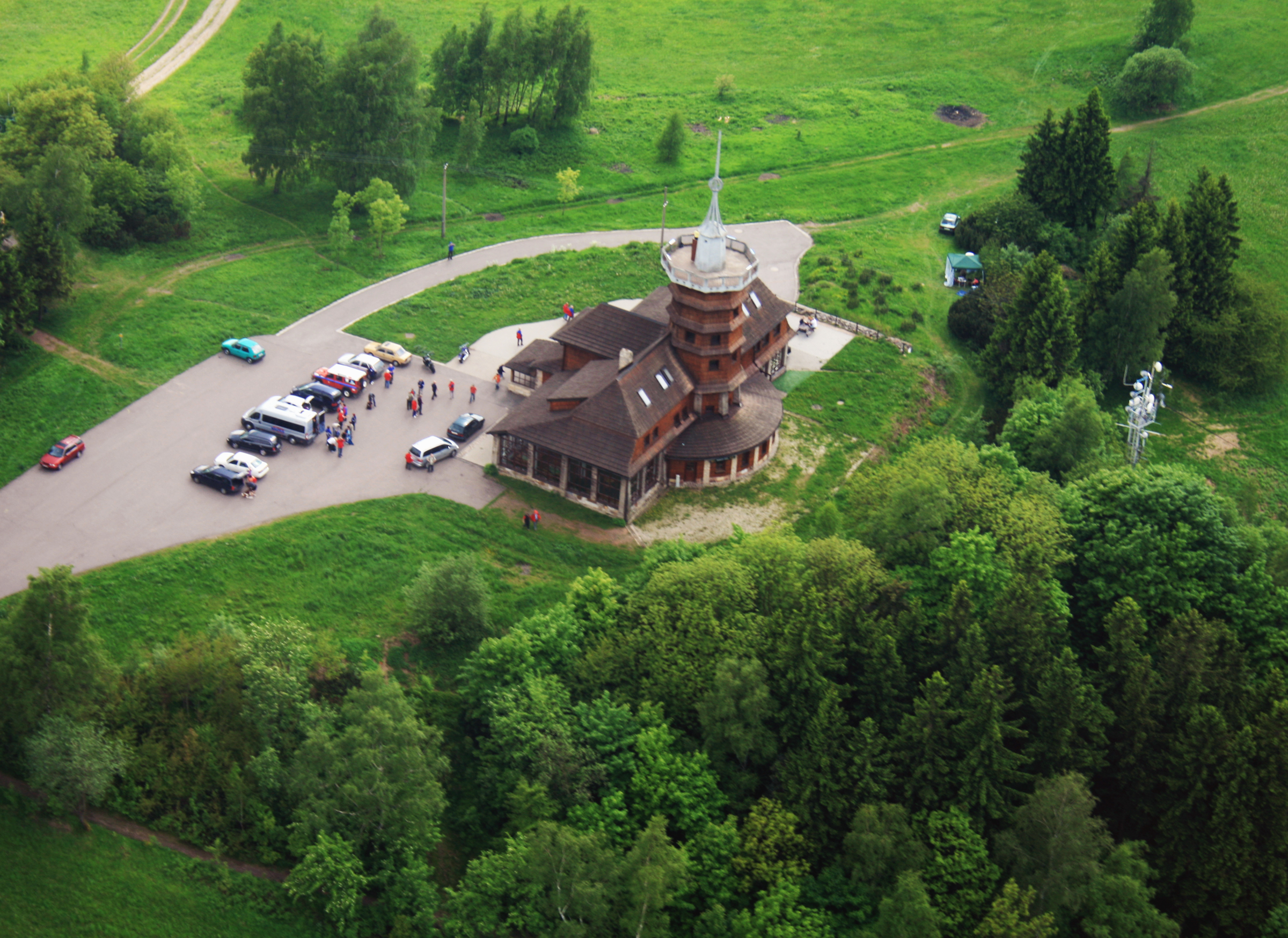 Cottage of Jirásek (Jiráskova chata) near of Dobrošov from air, eastern Bohemia, Czech Republic